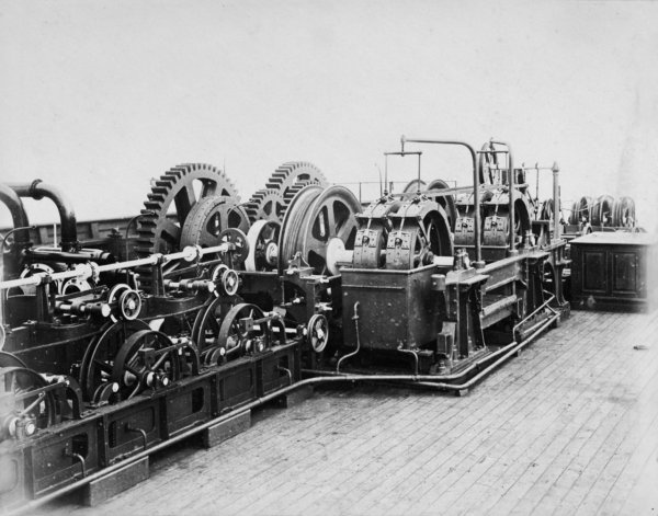 Cable Laying Machinery on SS „Great Eastern“ Reproduction ID: National Maritime Museum Native nameNational Maritime MuseumLocationGreenwich, London, EnglandCoordinates51° 28′ 52″ N, 0° 00′ 20″ W Established1937WebsiteRoyal Museums GreenwichAuthority control : Q1199924 VIAF: 155587039 ISNI: 0000 0004 0426 429X LCCN: n80126325 GND: 1049610-5 SUDOC: 028465725 WorldCat